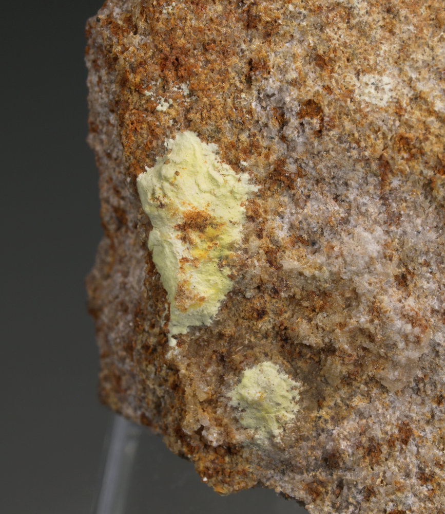 Locality: Jomac Mine, San Juan County, Utah, United States of America Size: 5 × 3.5 × 1.4 cm Description: On a sandstone matrix some yellow crusts of coconinoite formed by small tabular to micaceous crystals. This sample has been analyzed by SEM-EDS.